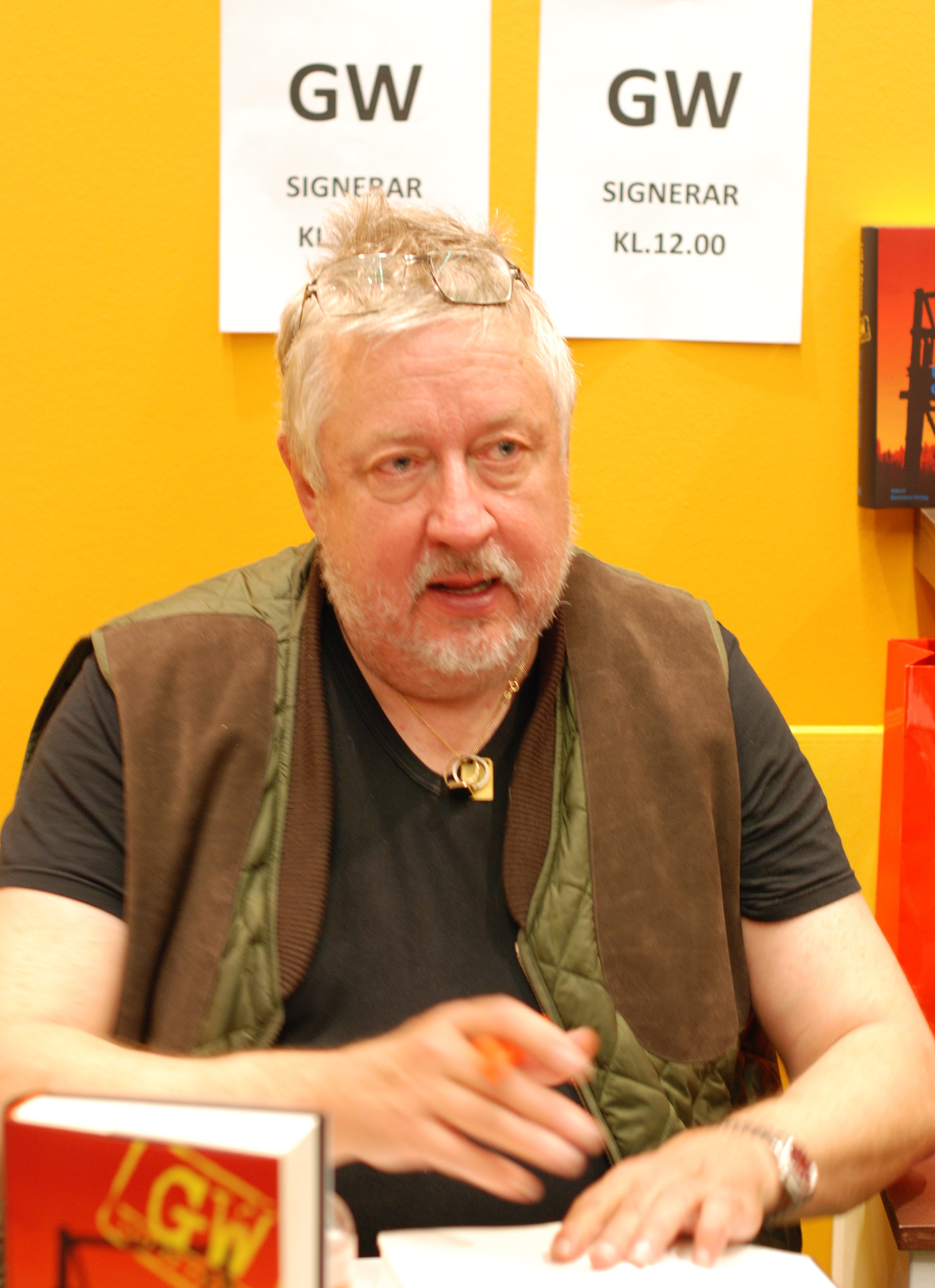 Swedish writer Leif G.W. Persson at the Göteborg Book Fair 2010